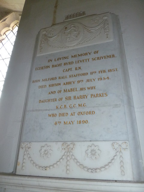 Memorial to Egerton Bagot Byrd Levett Scrivener, St Peter's Church, Sibton, Suffolk, England. "In Loving Memory of Egerton Bagot Byrd Levett Scrivener, Capt. R.N., born Milford Hall, Stafford, 11th Feb. 1857, died Sibton Abbey 9th July 1954, and of Mabel, his wife, daughter of Sir Harry Parkes, K.C.B., G.C., M.G., who died at Oxford 6th May 1890." Image courtesy of .